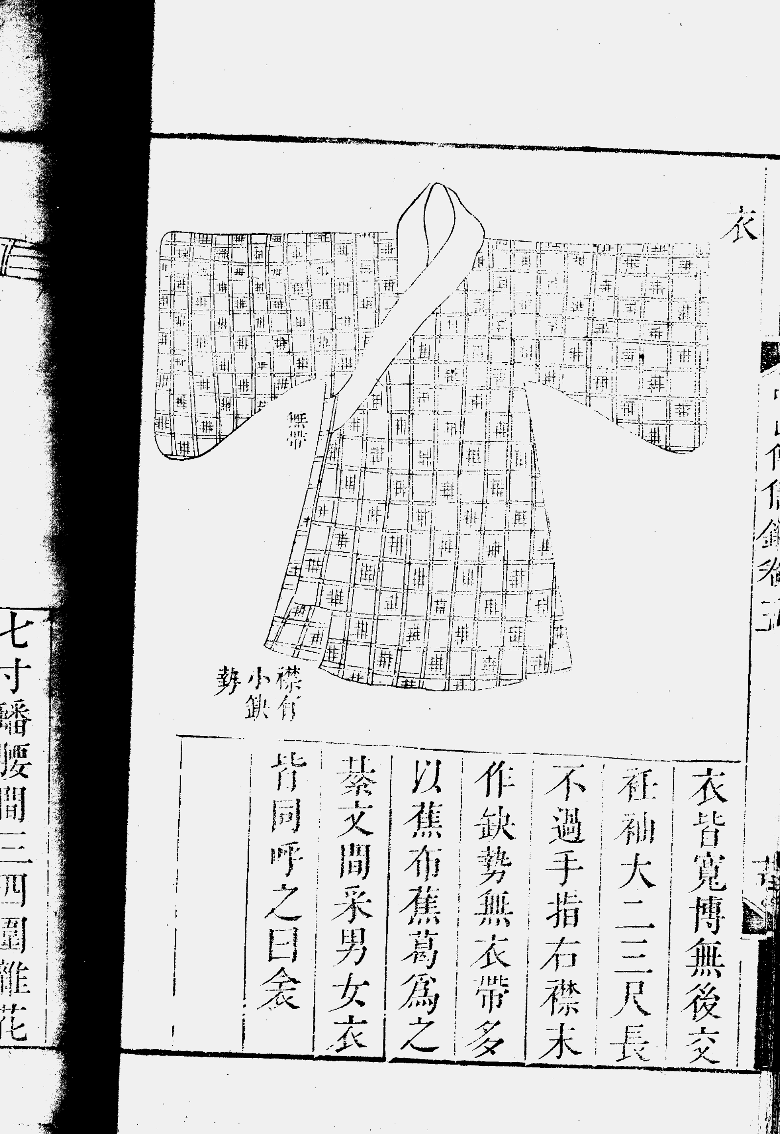 Ancient Ryukyuan clothes